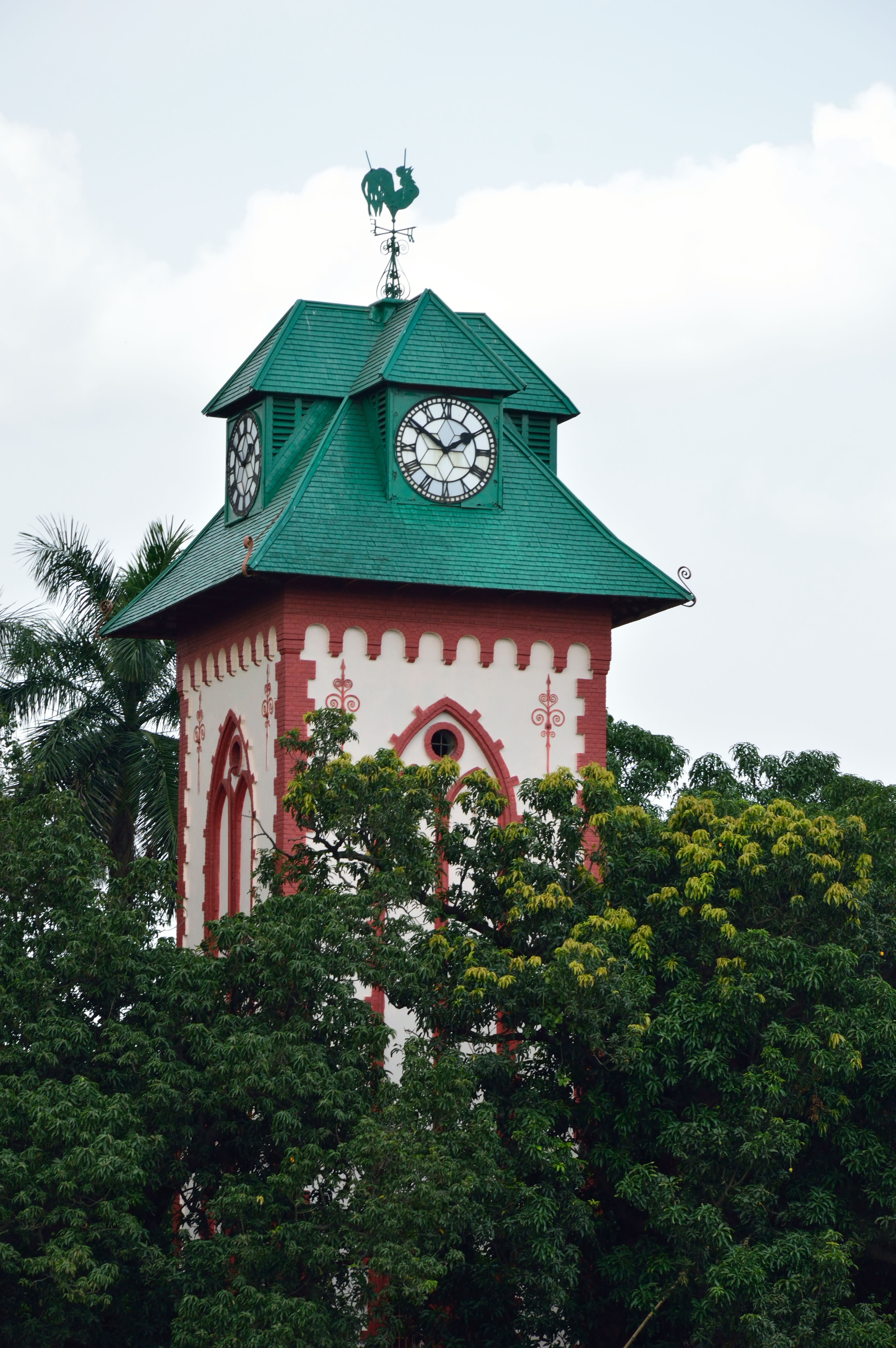 Formerly Bishop's College in the British Raj then Bengal Engineering College, Shibpur, Howrah.